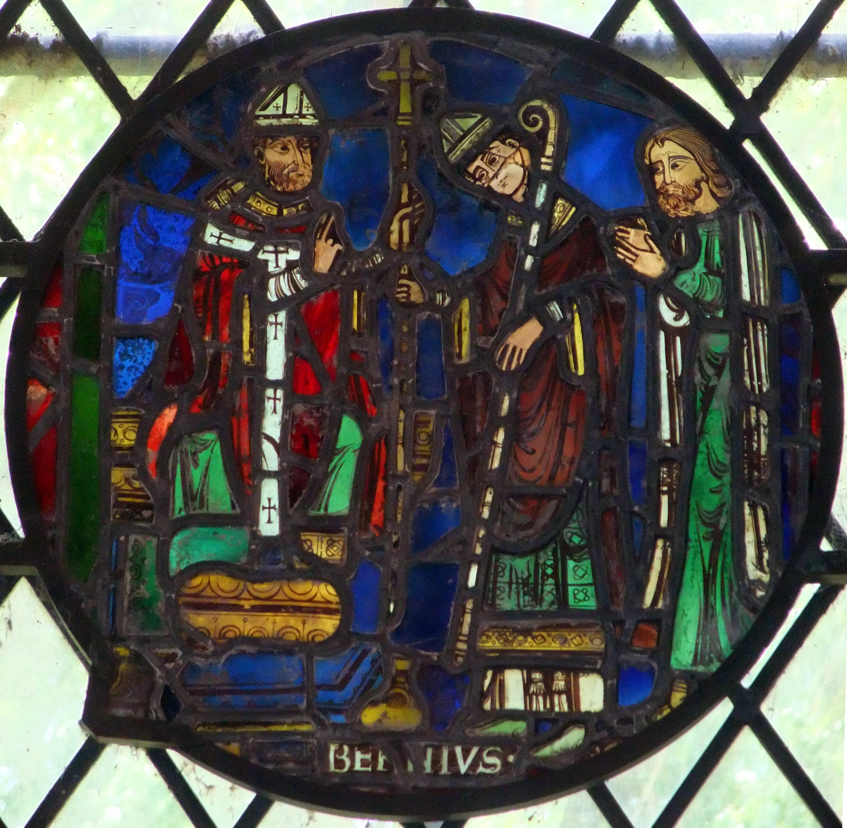 Stained glass roundel representing St Birinus ("BERNIUS") in Dorchester Abbey, Oxfordshire